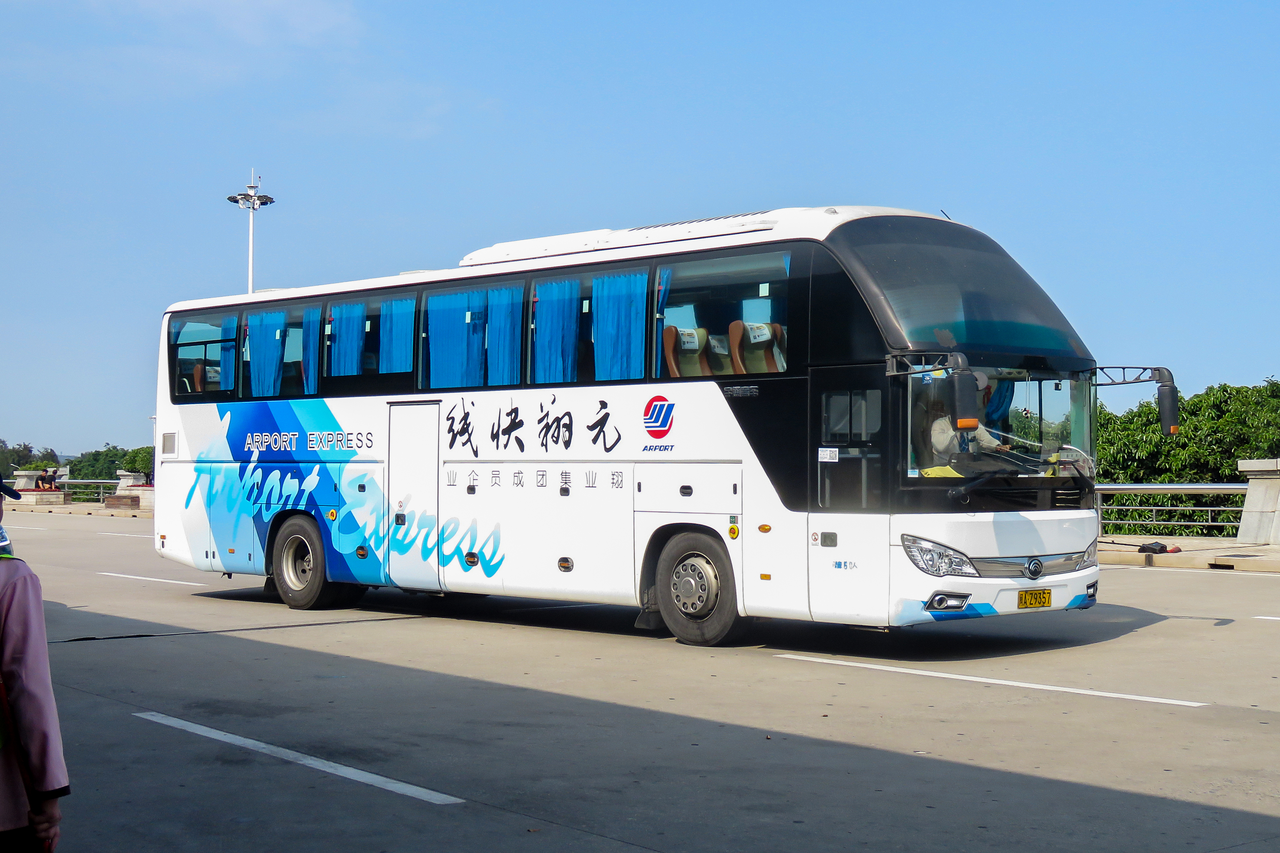 From Apollo Hotel. No S-series routes for FOC...